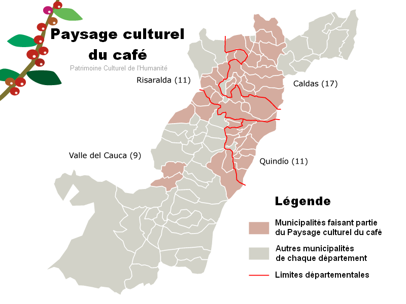 Infographics about the colombian municipalties declared World Heritage Centre, labeled as 'Coffee Cultural Landscape of Colombia'.